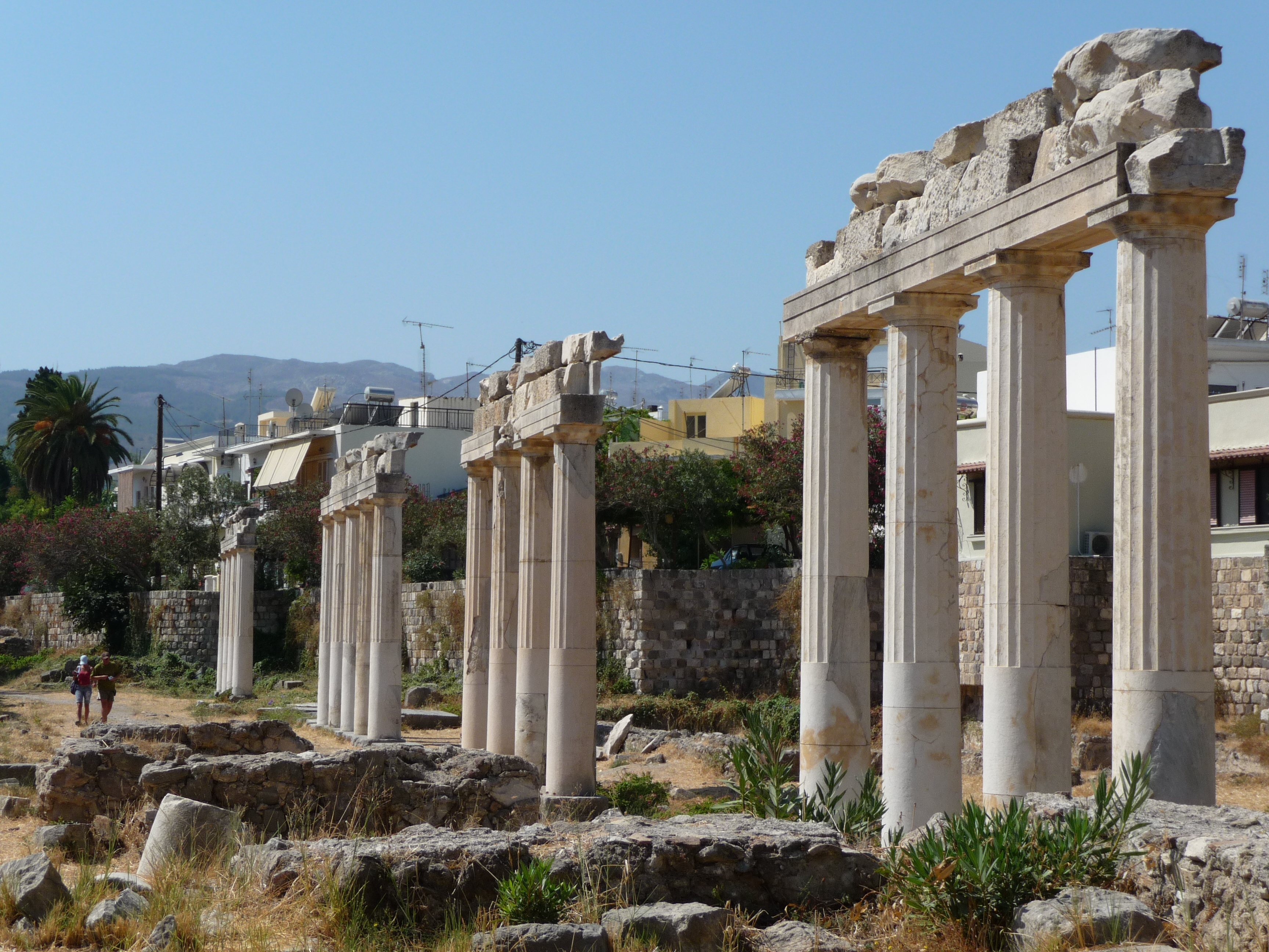 The Gymnasium in the Western Archaeological Zone of Kos Town.